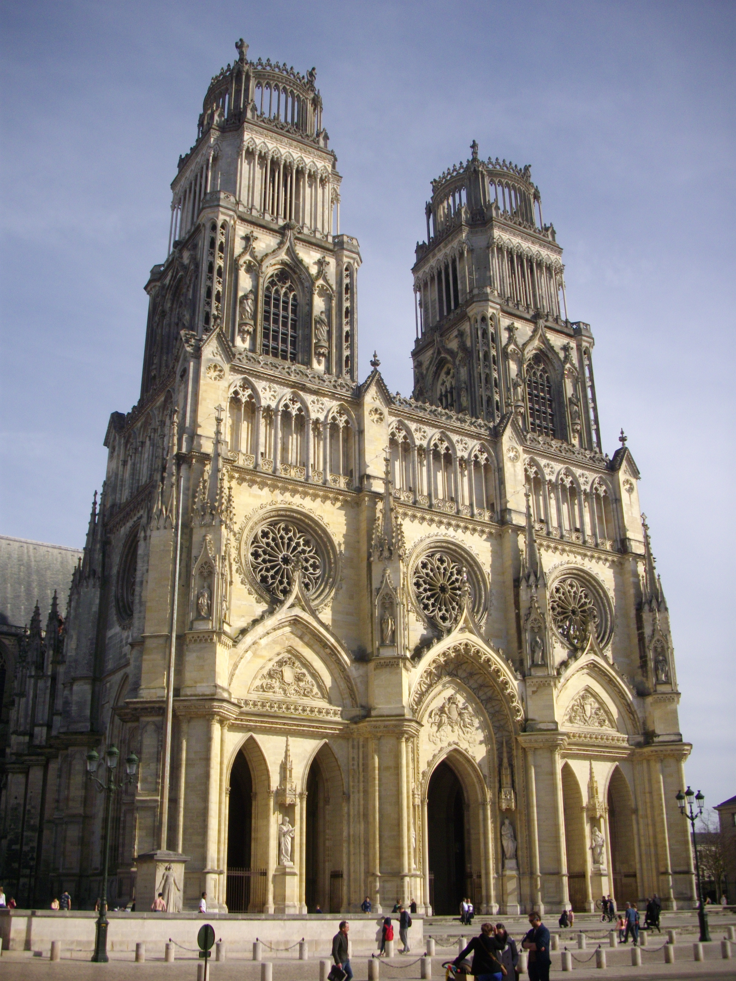 Holy Cross cathedrale of Orléans (Loiret, France), western facade .